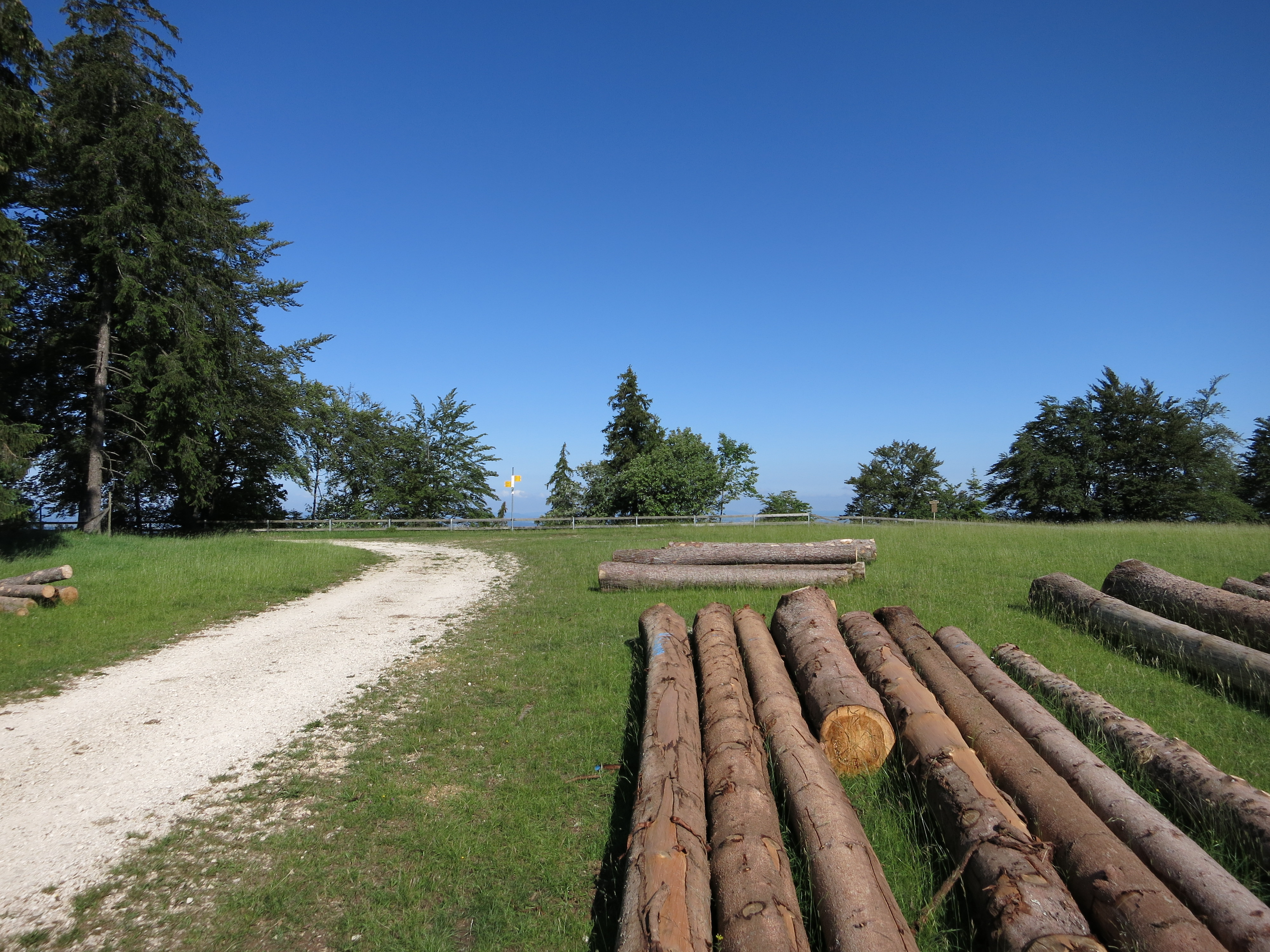 On top of Hummelsberg, Schwaebische Alb